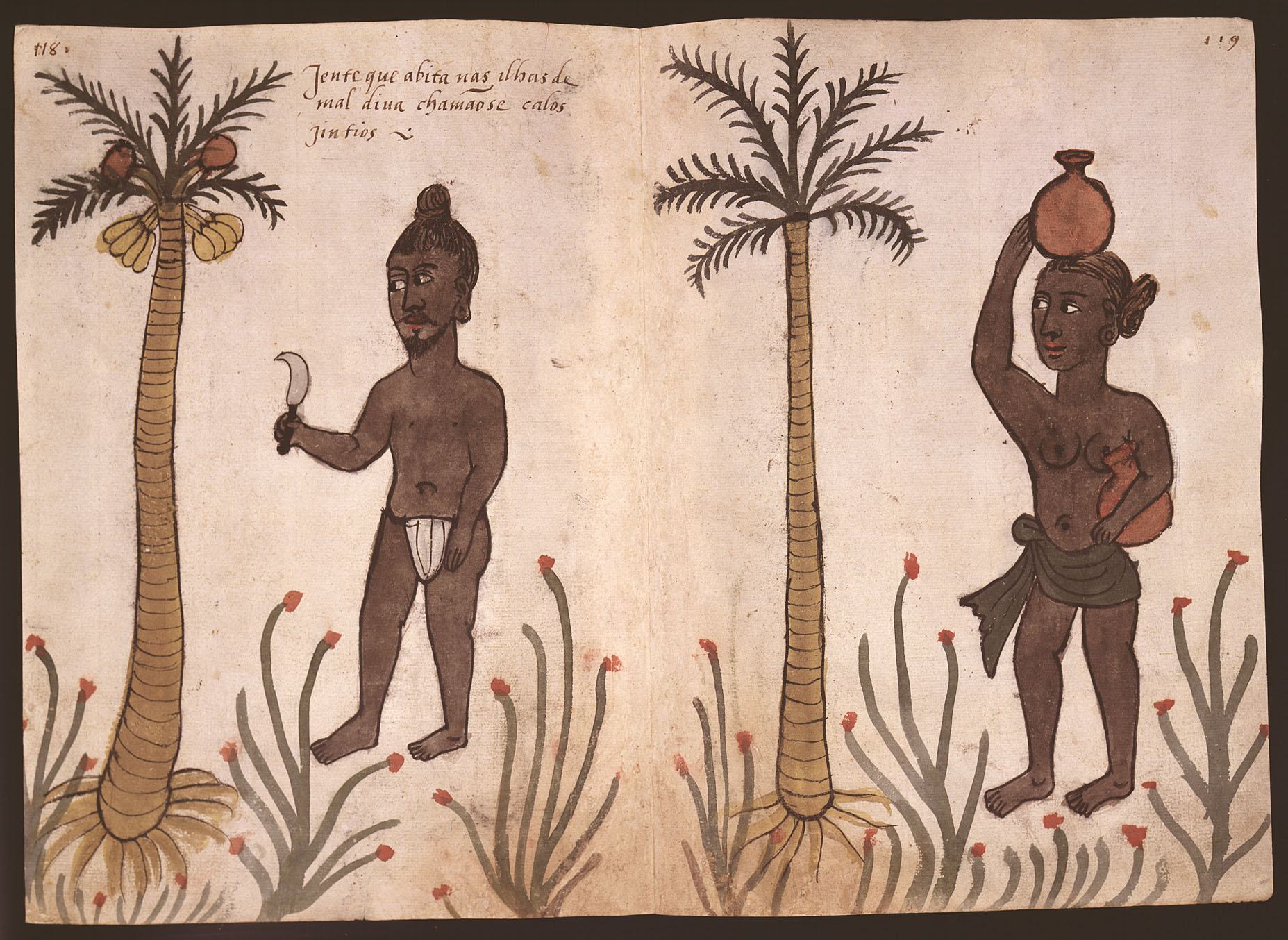 Anonymous 16th century Portuguese illustration contained within the Códice Casanatense, depicting inhabitants of the Maldives. The inscription reads: "People that inhabit the Maldives called Calos. Gentiles.